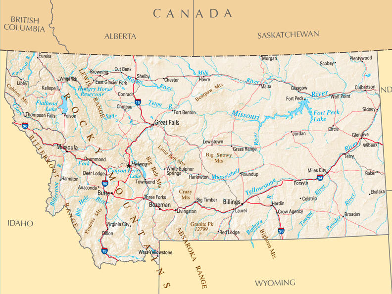 Map of Montana* Map of: Montana¤.